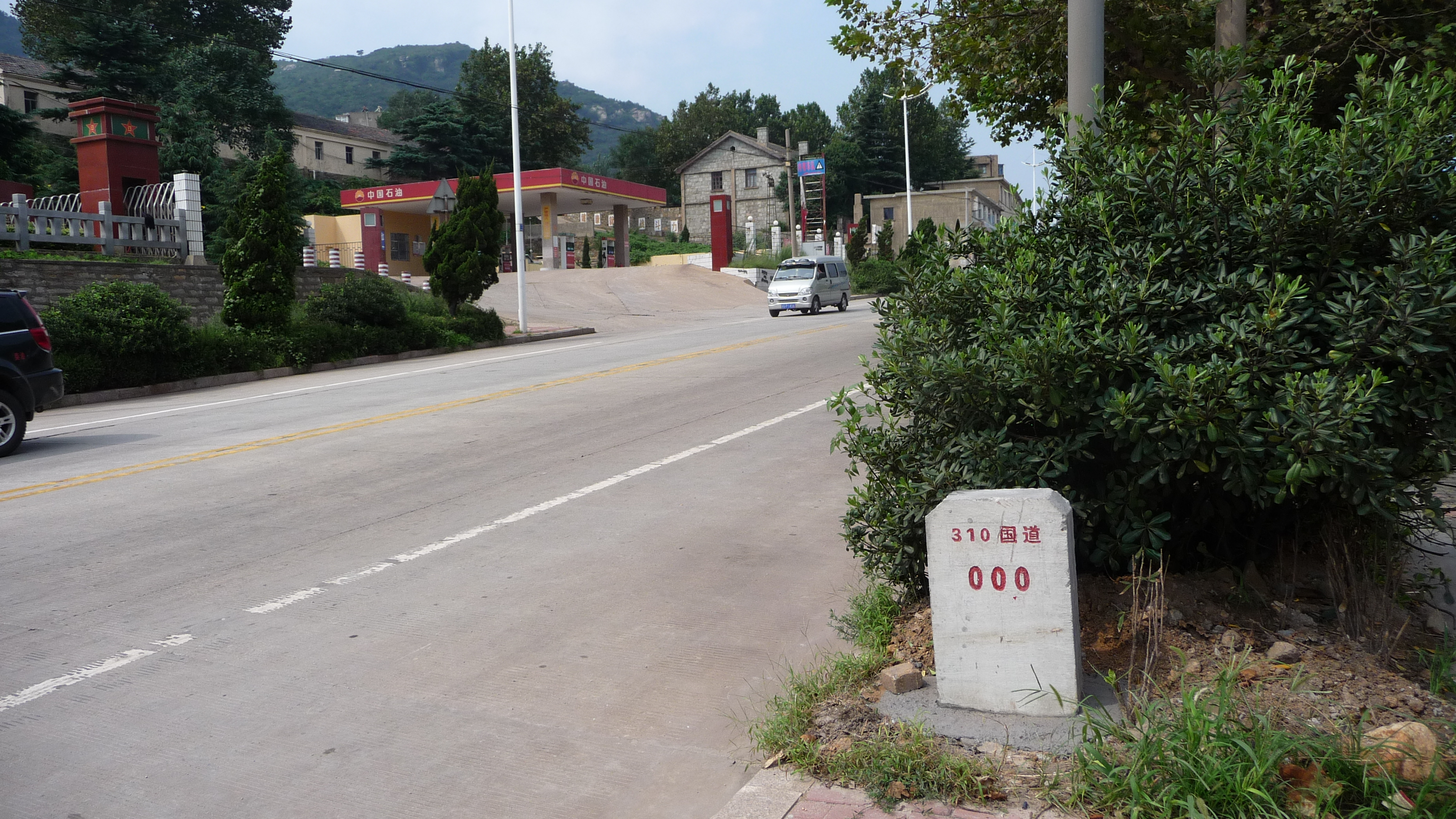 G310‘s Starting which Locate in Lianyun district，Lianyungang city